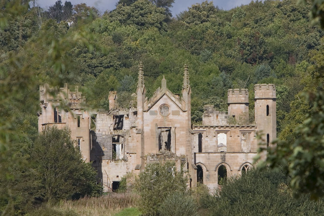 Cambusnethan Priory This Gothic mansion house was completed in 1820. Also known as Cambusnethan House, it was converted into a hotel in 1980, closing four years later. Since 1984 the building has fallen victim to vandalism and arson. This Grade A listed building appears on Scottish Civic Trust Buildings at Risk Register